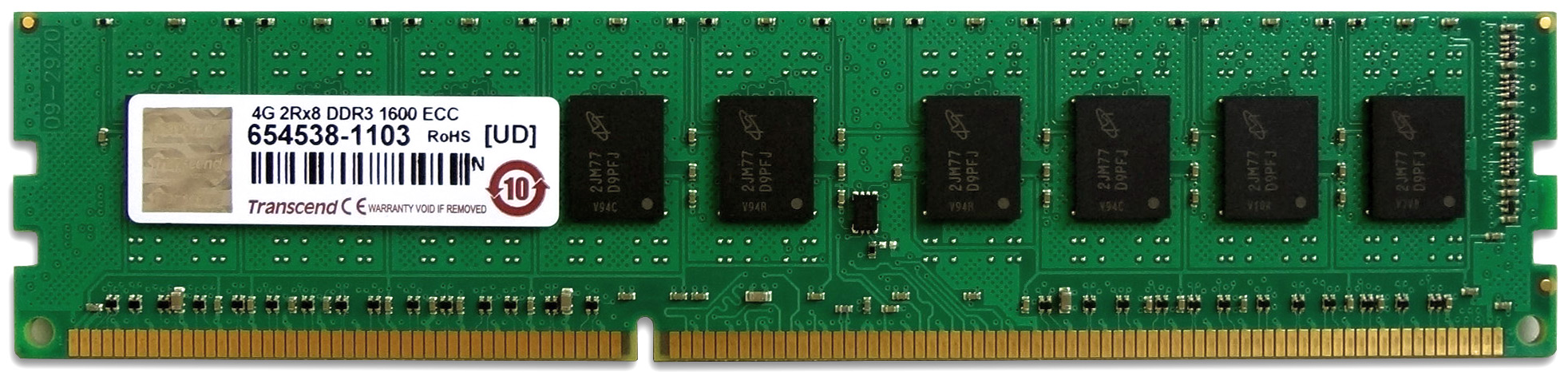 Transcend DDR3 RAM TS512MLK72V6N, made in 2013. This file has been extracted from another file: 2013 Transcend TS512MLK72V6N.jpg